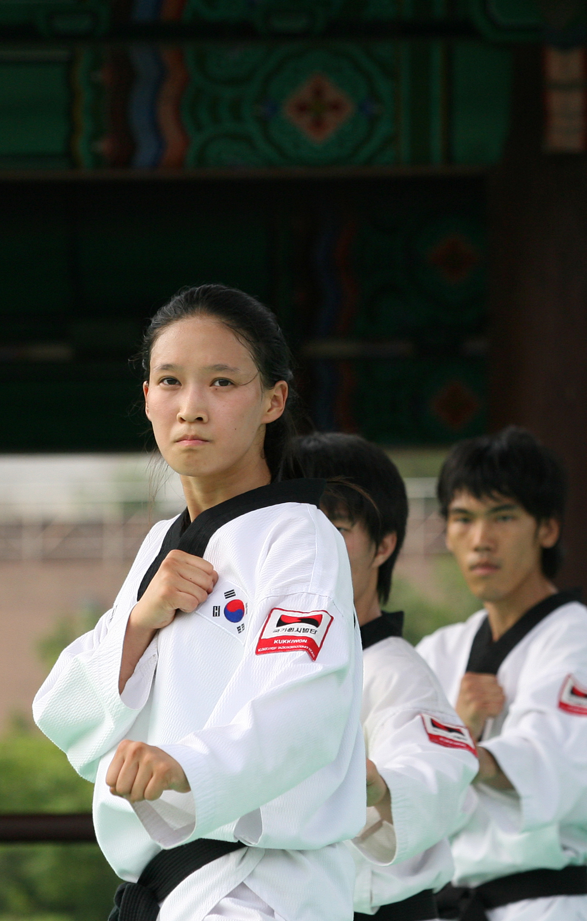 Kukkiwon Taekwondo Demonstration Team Taekwondo Concert at Namsangol Hanok Village 2012.07.21 (KOCIS Photo/ Han Jeon) 국기원 태권도 시범단 남산한옥마을 관광객을 위한 정기 시범 (콘서트) 2012년 7월 21일 (토) (문화체육관광부 해외문화홍보원 / 전한)